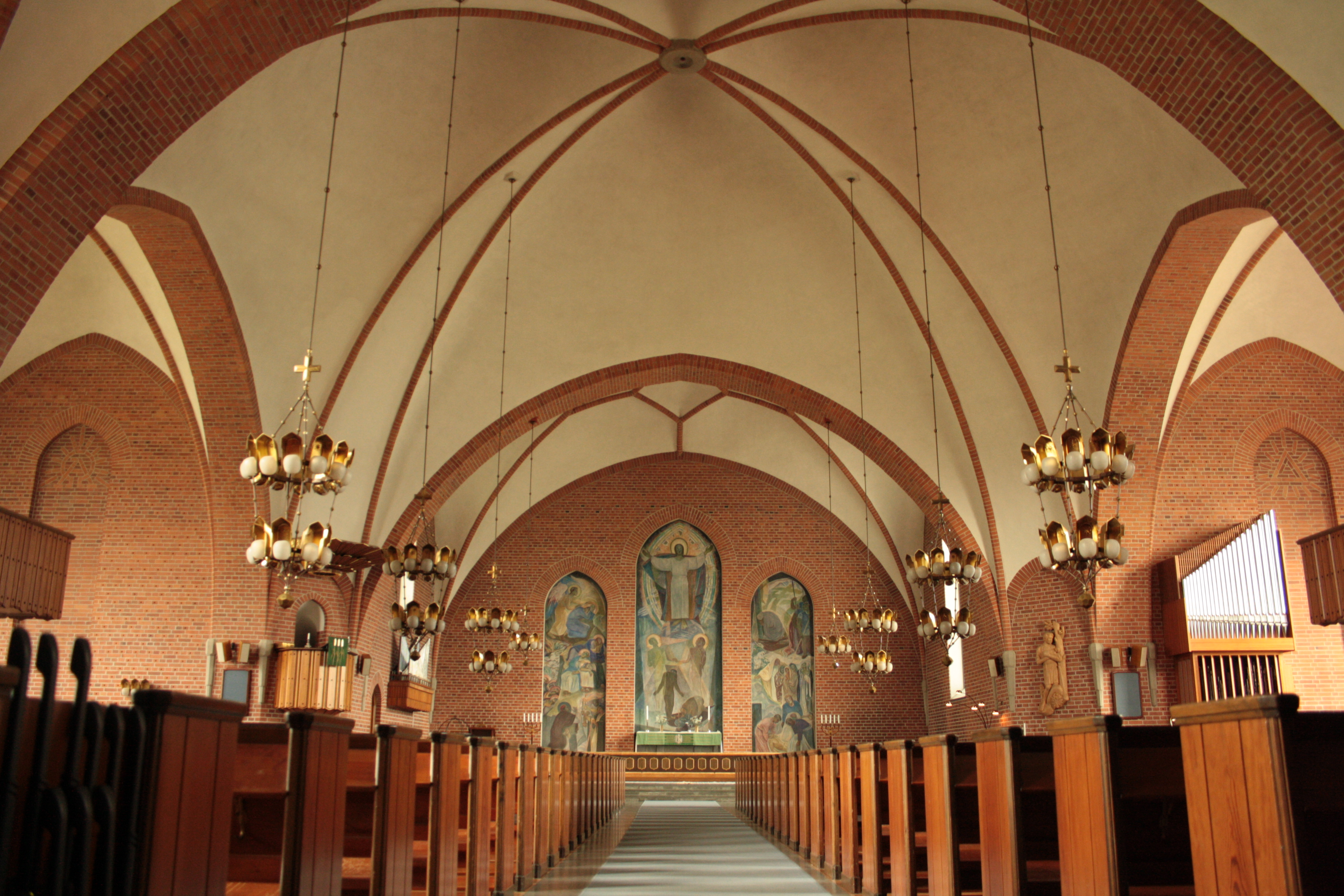 Burträsk church, Sweden. Aisle of the church.